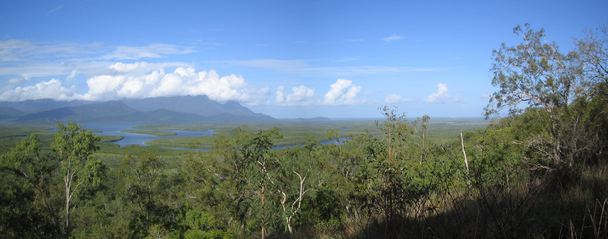 Queensland vegetation between Cairns and Townsville